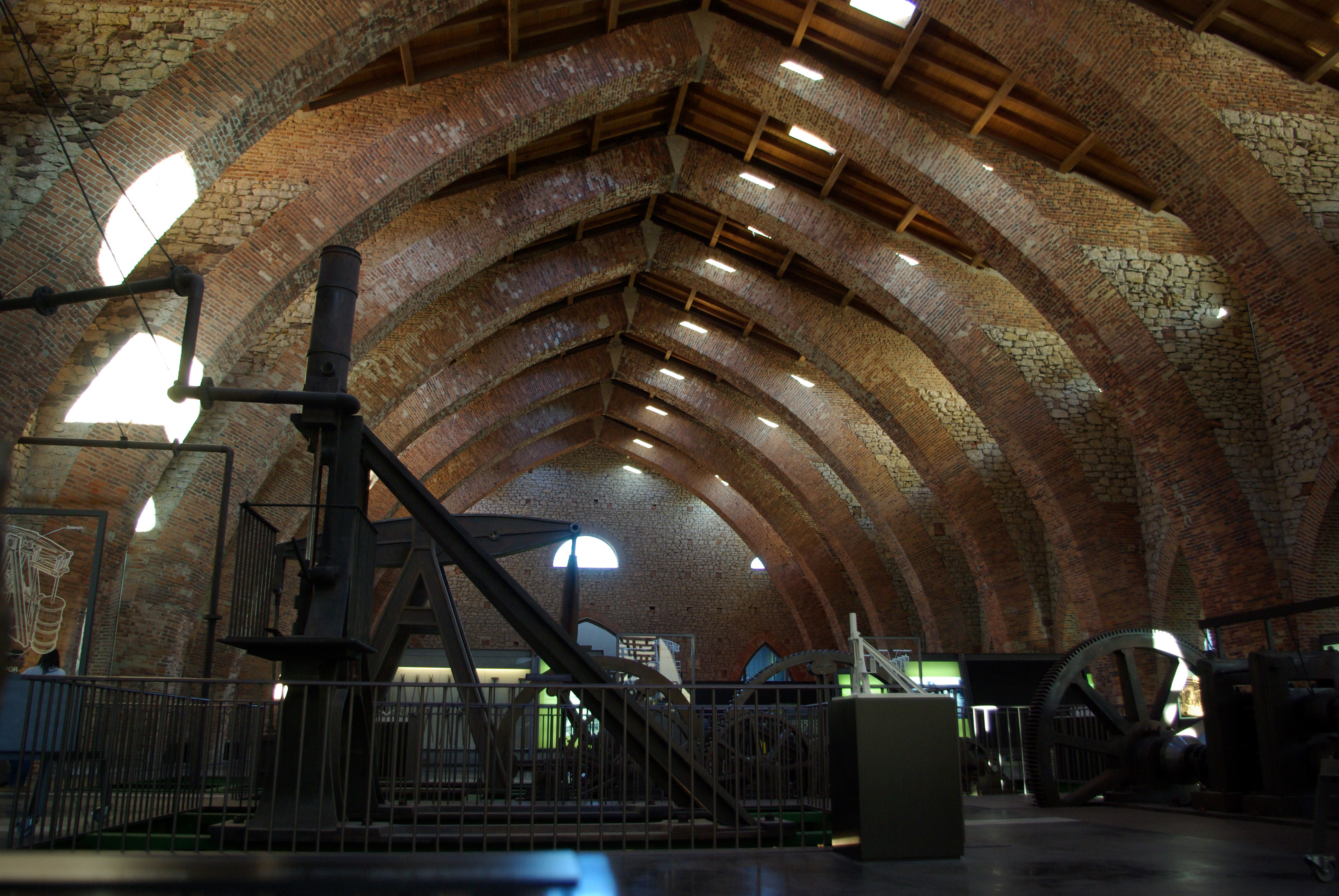 Inside of "Plaza Cerrada" (roofed square) in Sabero (León, Spain). This building, originally Ferrería de San Blas (Ironwork of Saint Blaise), was the first ironwork in Spain, 1846. Its blast furnace worked with coke and the building was made in a neogothic style. Nowadays it is the Museo de la Siderurgia y la Minería de Castilla y León headquarters